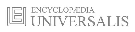 Encyclopædia Universalis logo